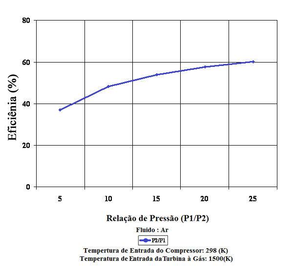 Variação da eficiência pela relação de pressão (P1/P2)